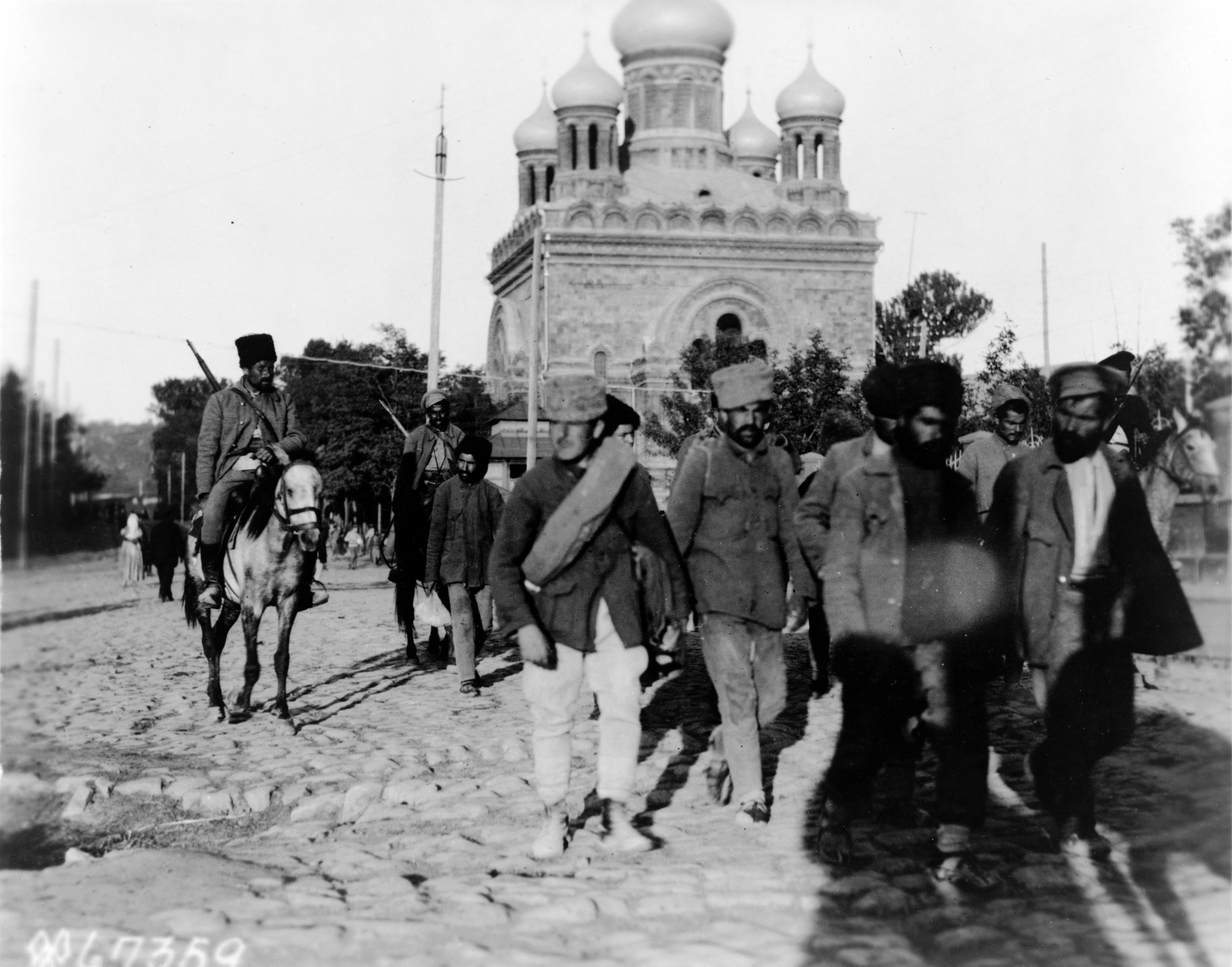 ERIVAN, ARMENIA—Armenian soldiers bringing in a bunch of prisoners, these men were deserters from the Armenian army. Photo shows men walking in front of soldiers on horseback on a cobblestone street; church in background. Photograph taken during the American Military Mission to Armenia (1919) led by General James G. Harbord.